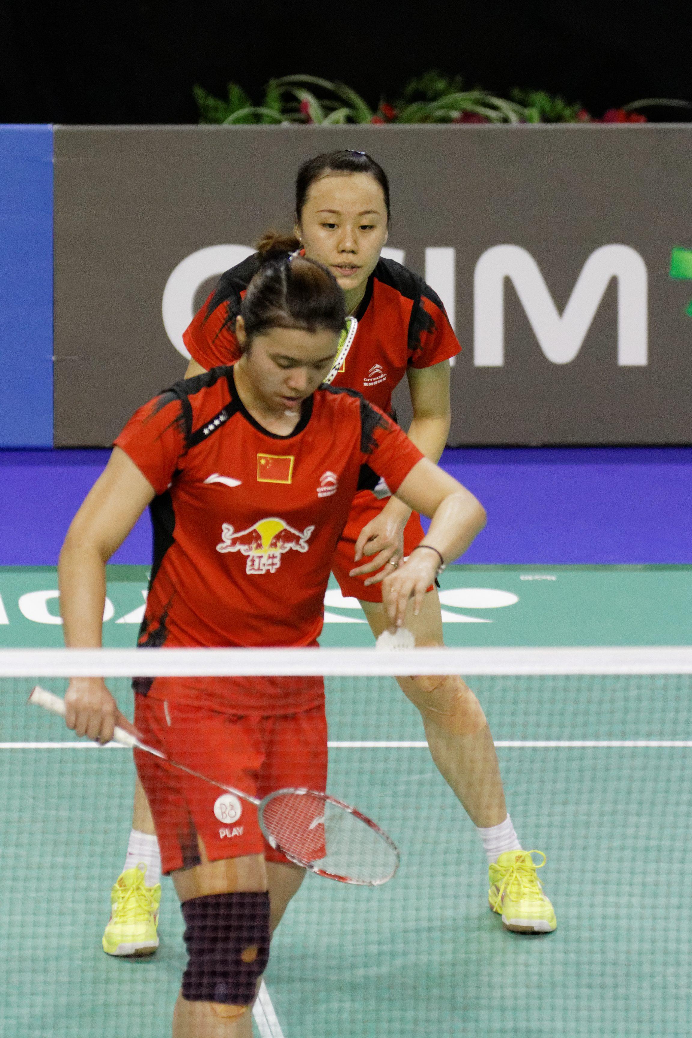 2013 French open. Women's doubles quarterfinal. Tian Qing and Zhao Yunlei vs Misaki Matsutomo and Ayaka Takahashi.